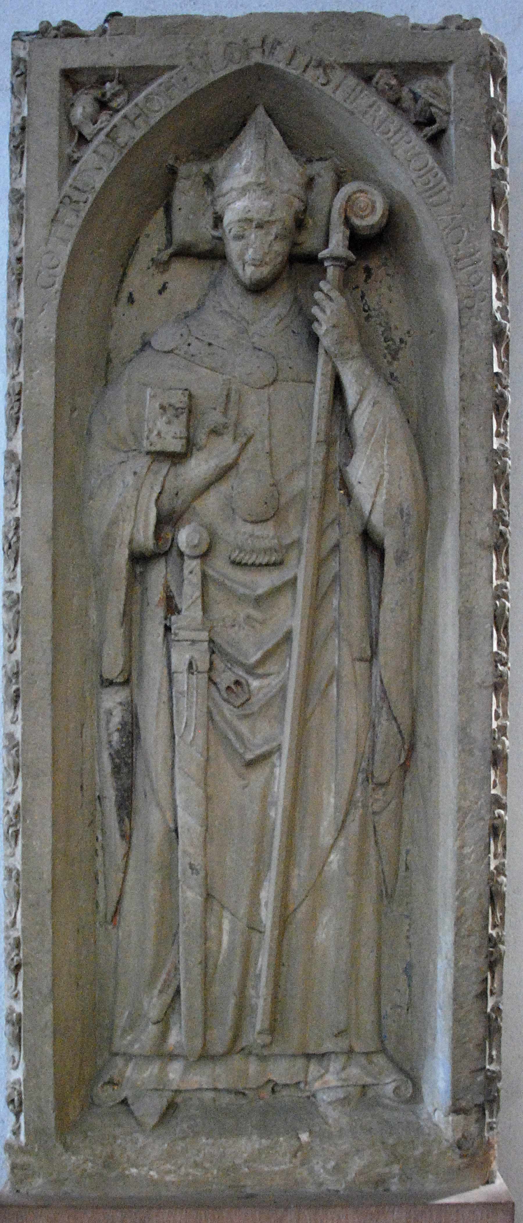 Gottfried III von Hohenlohe grave Wurzburg Dom